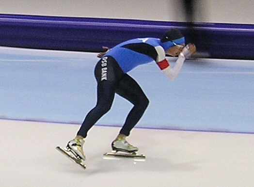 Alexis Contin (FRA) in action at the WCh Allround 2007 in Thialf (Heerenveen, The Netherlands)